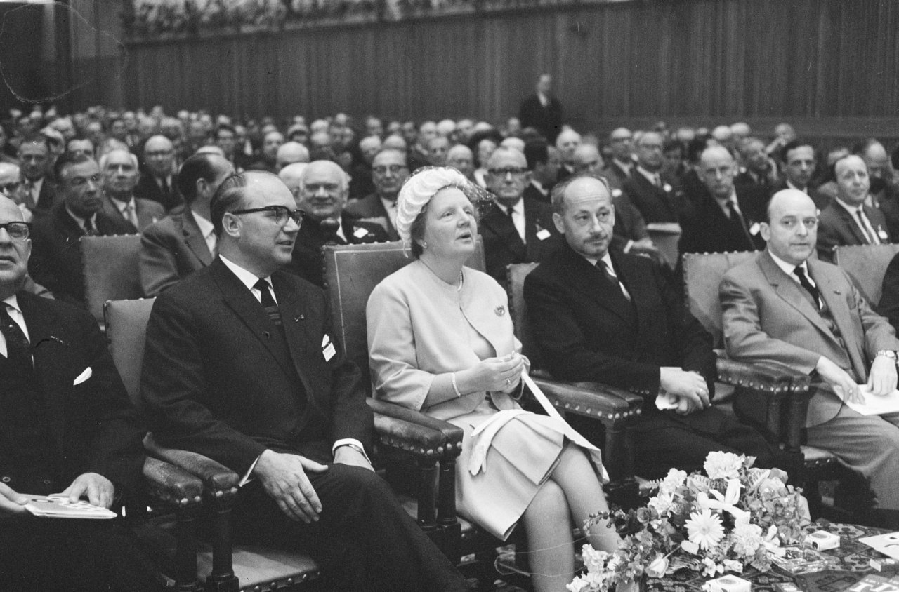 Antoine Rottier, Queen Juliana, Minister Korthals, Baron XXX